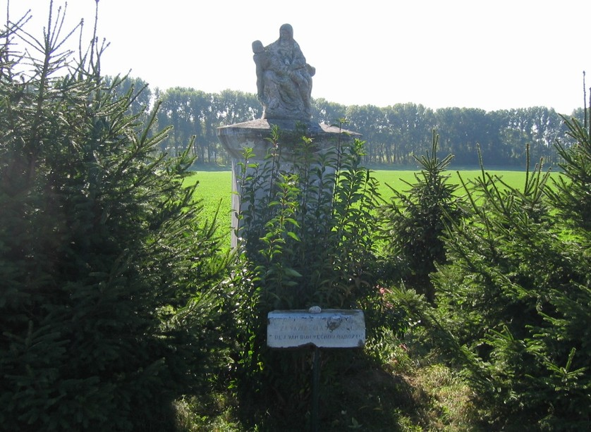 Památník bitvy u Chotusic